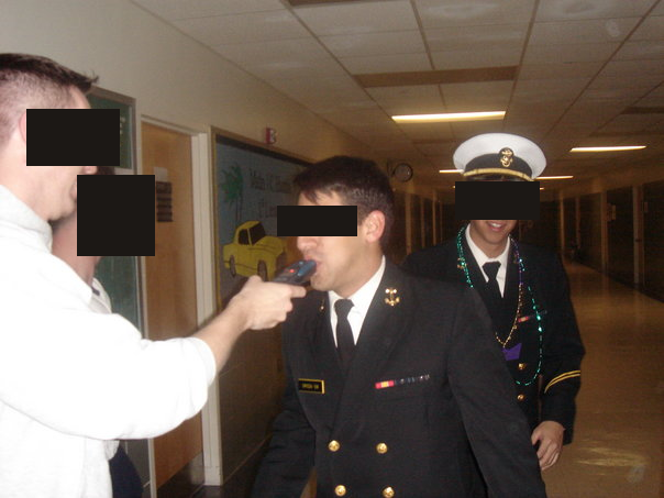 A midshipman is subjected to a random breathalyzer test in accordance with the "0-0-1-3" standard.